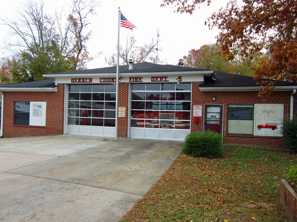 DeKalb Fire Station 5. Tucker, Georgia, United States